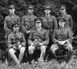 France: Seine Maritime, Pissy. Portrait of Brigadier General R. E. Leane CMG DSO MC, General Officer Commanding, 12th Australian Infantry Brigade, and staff. Identified left to right, back row: Lieutenant (Lt) A. V. Paterson MM; Second Lieutenant (2nd Lt) W. Grey MM; Lt G. K. Henderson MC MM; Lt W. Pennel DCM MM. Front row: Captain (Capt) A. Nicholson MC, Acting Brigade Major; Brigadier General Raymond Lionel Leane CMG DSO and Bar and MC; Capt A. L. Varley MC, Staff Captain